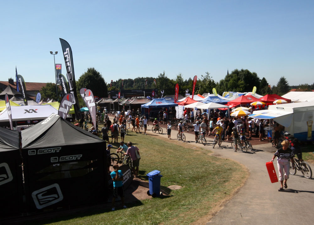 Eurobike Demo Day 2009